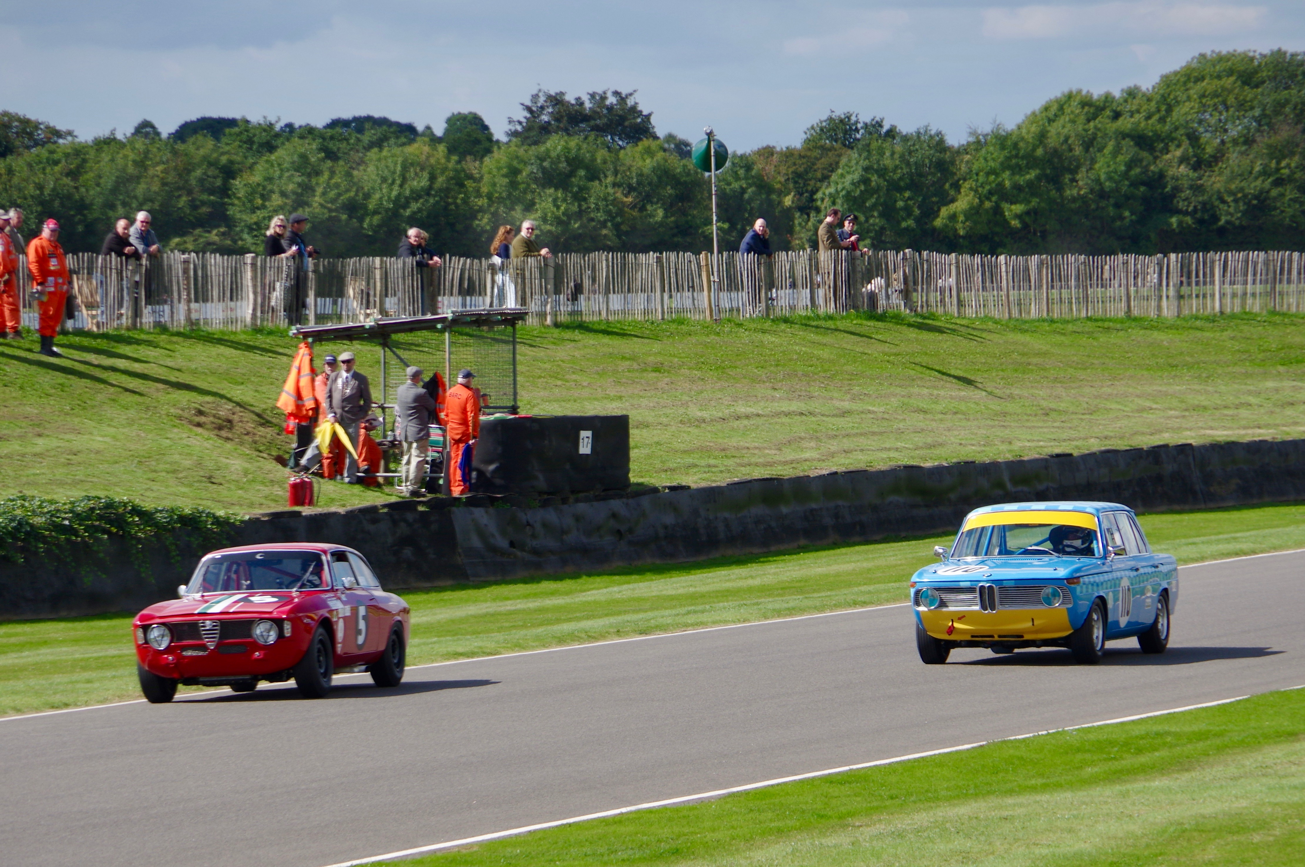 St. Marys' Trophy for 1960s Saloon Cars Goodwood Revival 2018